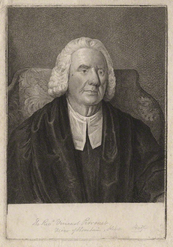 Portrait of Vincent Perronet (1693-1785), English clergyman of the Church of England, and early Methodist.